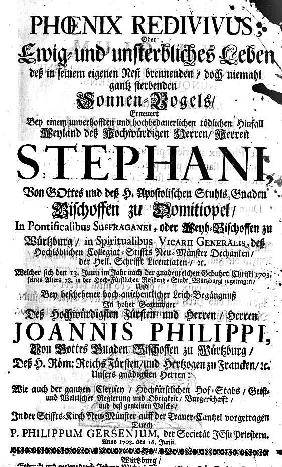 Philipp Gersenius, Jesuit, Titelblatt einer Trauerpredigt, 1703